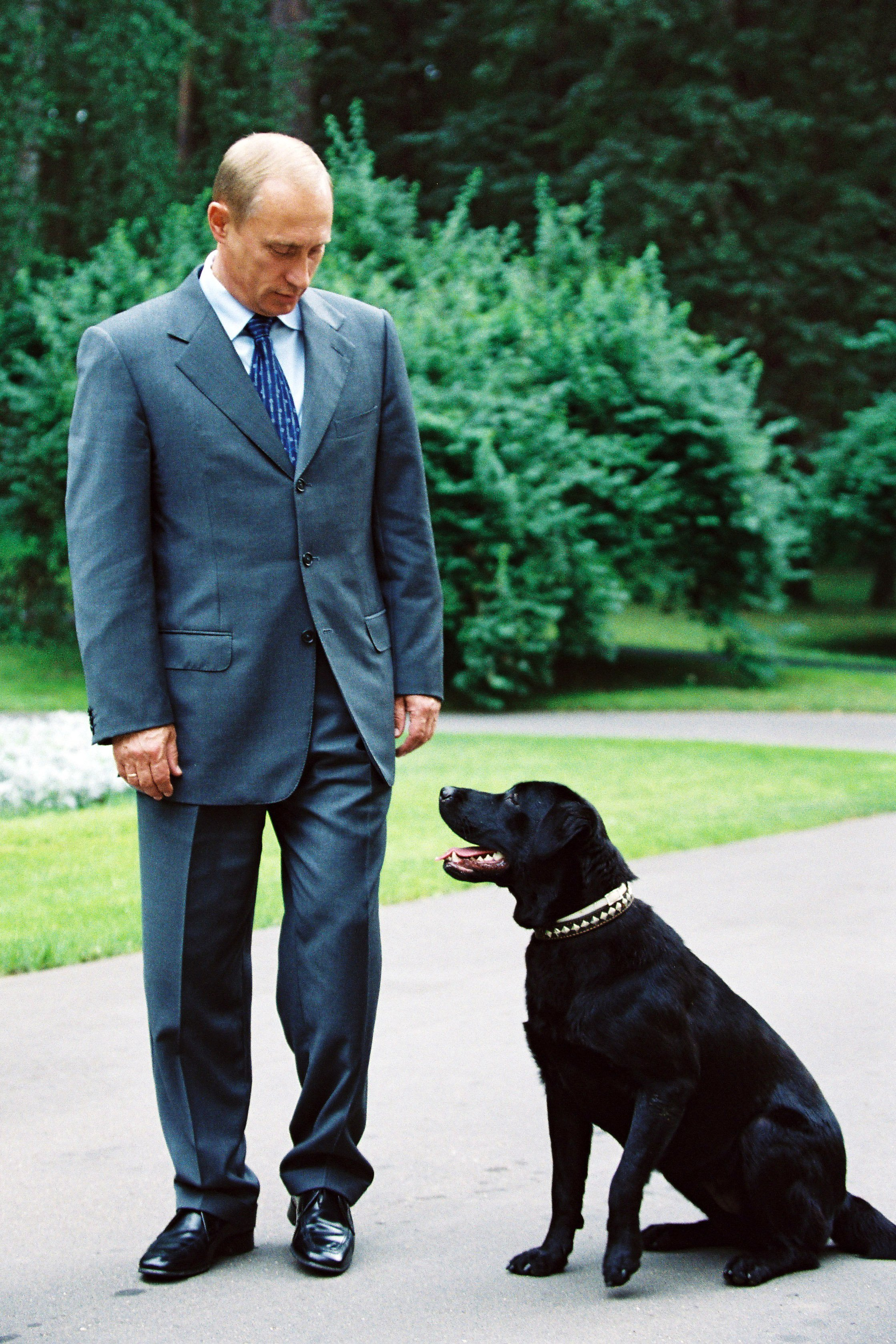 Novo-Ogaryovo. With Labrador Koni.